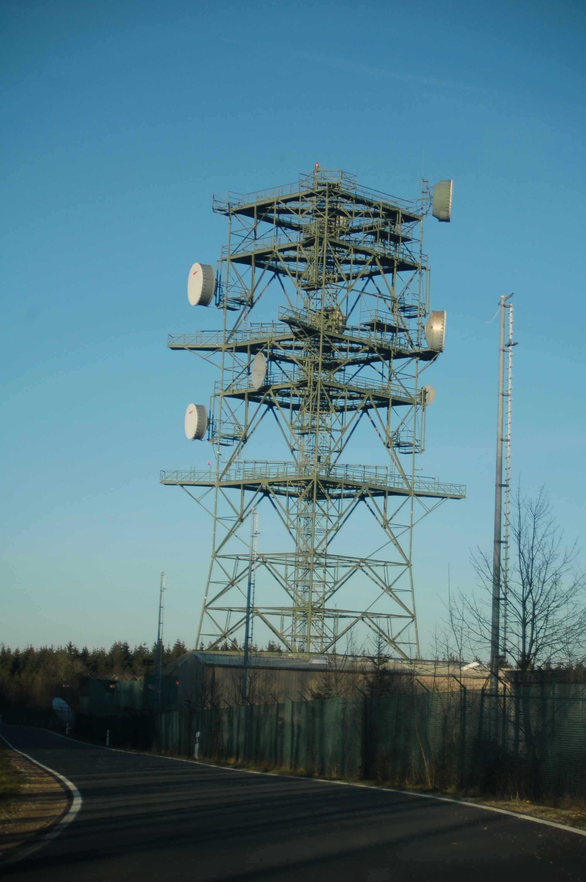 Transmission tower of Prüm Air Station